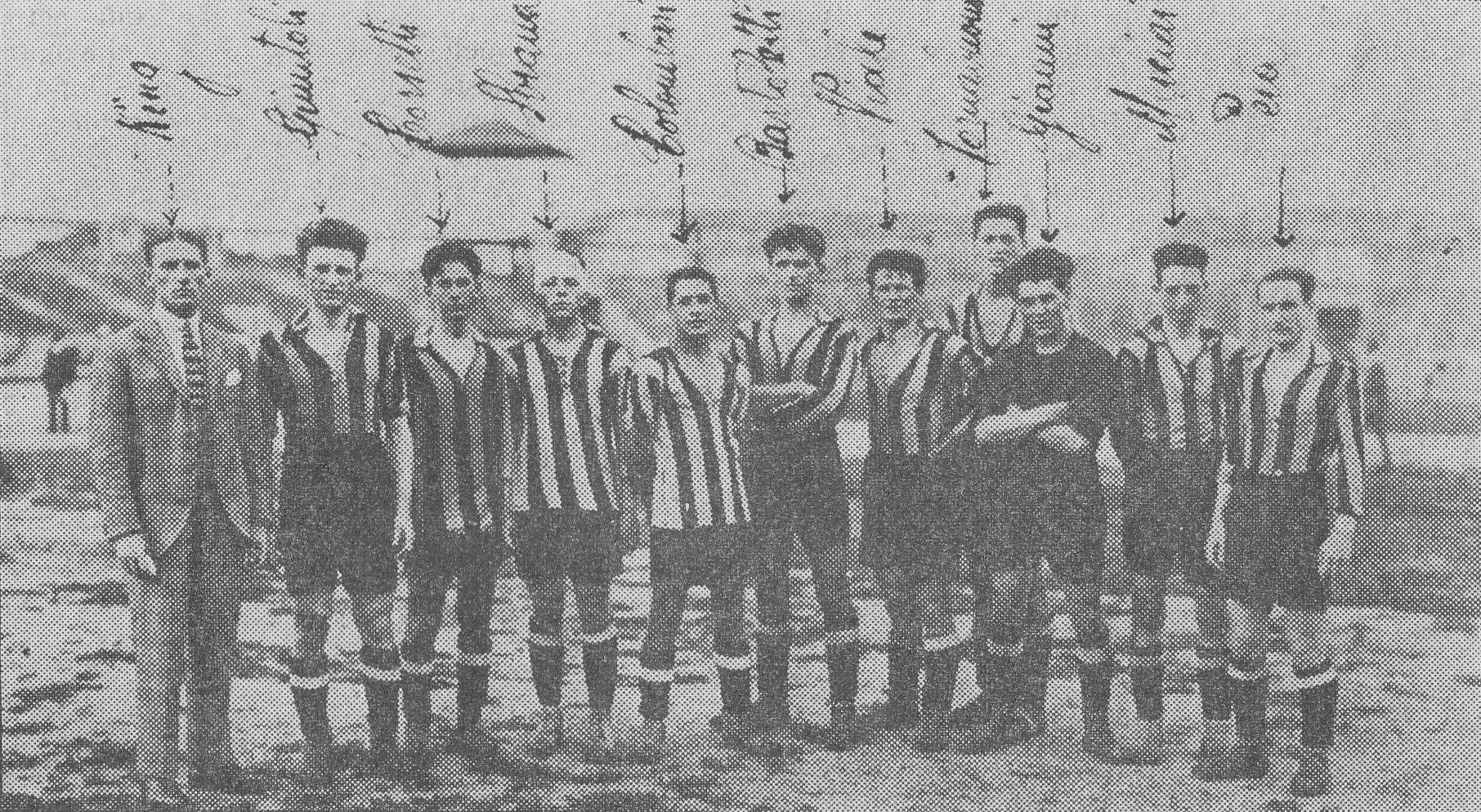 Line-up of Pisa Sporting Club during the championship of 1920-21.